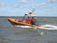 Bayport Fire Department Fire-Rescue Boat 2000 Zodiac Hurricane 530 Twin Yamaha 70 HP two stroke engines 125gpm Honda pump Radar, GPS, VHF, Lo Band, Hi Band radios, LED emergency Lighting, Remote search light, 4 flood lights.